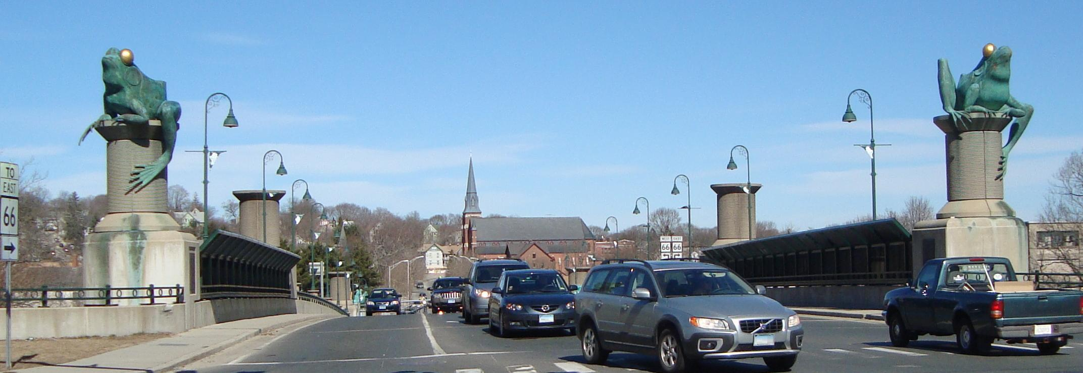 Giant sculptures of frogs atop spools of thread adorn a bridge next to the mill.